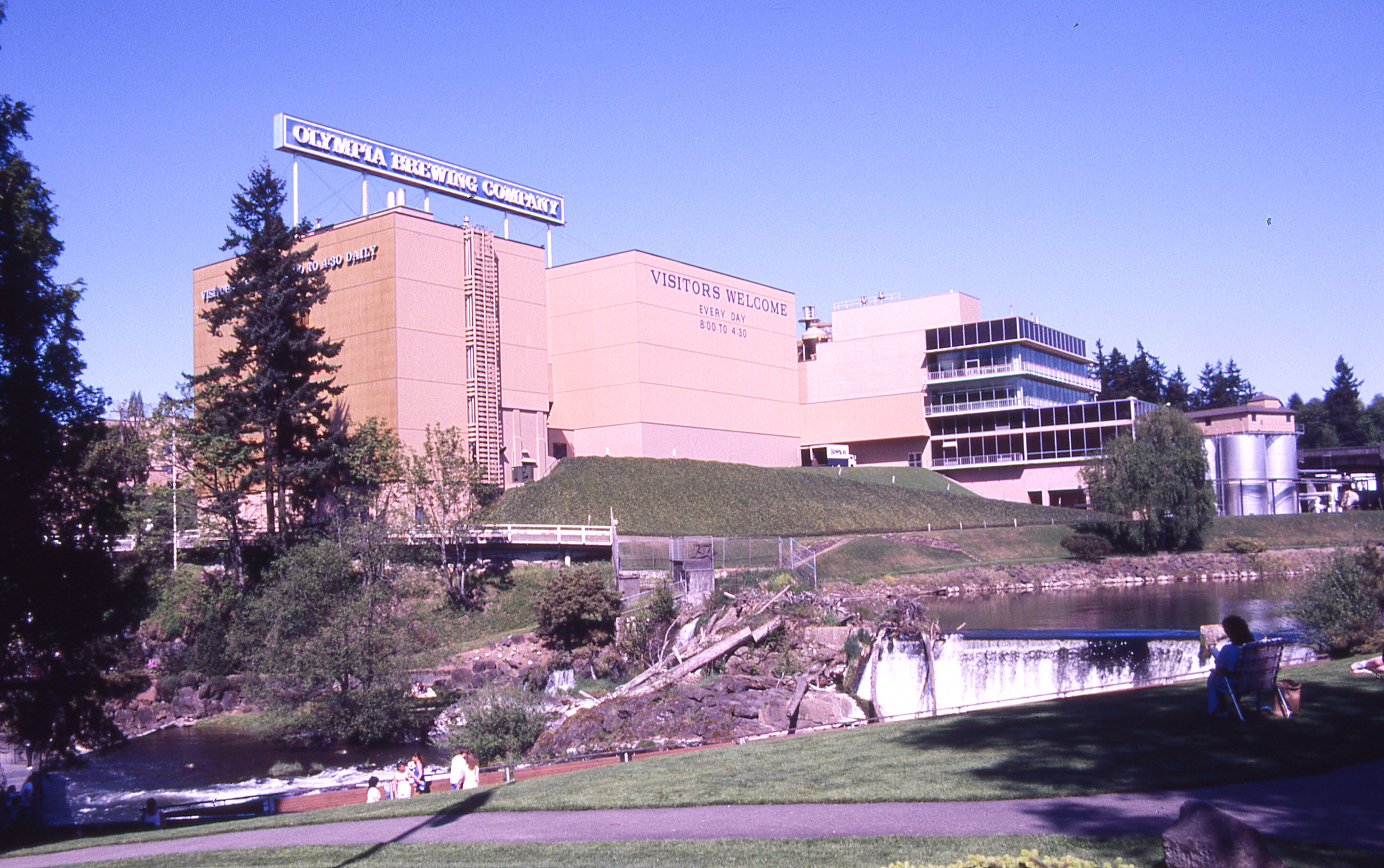 The Olympia Brewery in Tumwater, Washington (near Olympia, Washington) in 1989. Part of the Tumwater Historic District.